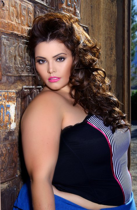 FFFW (Full Figured Fashion Week 2010)